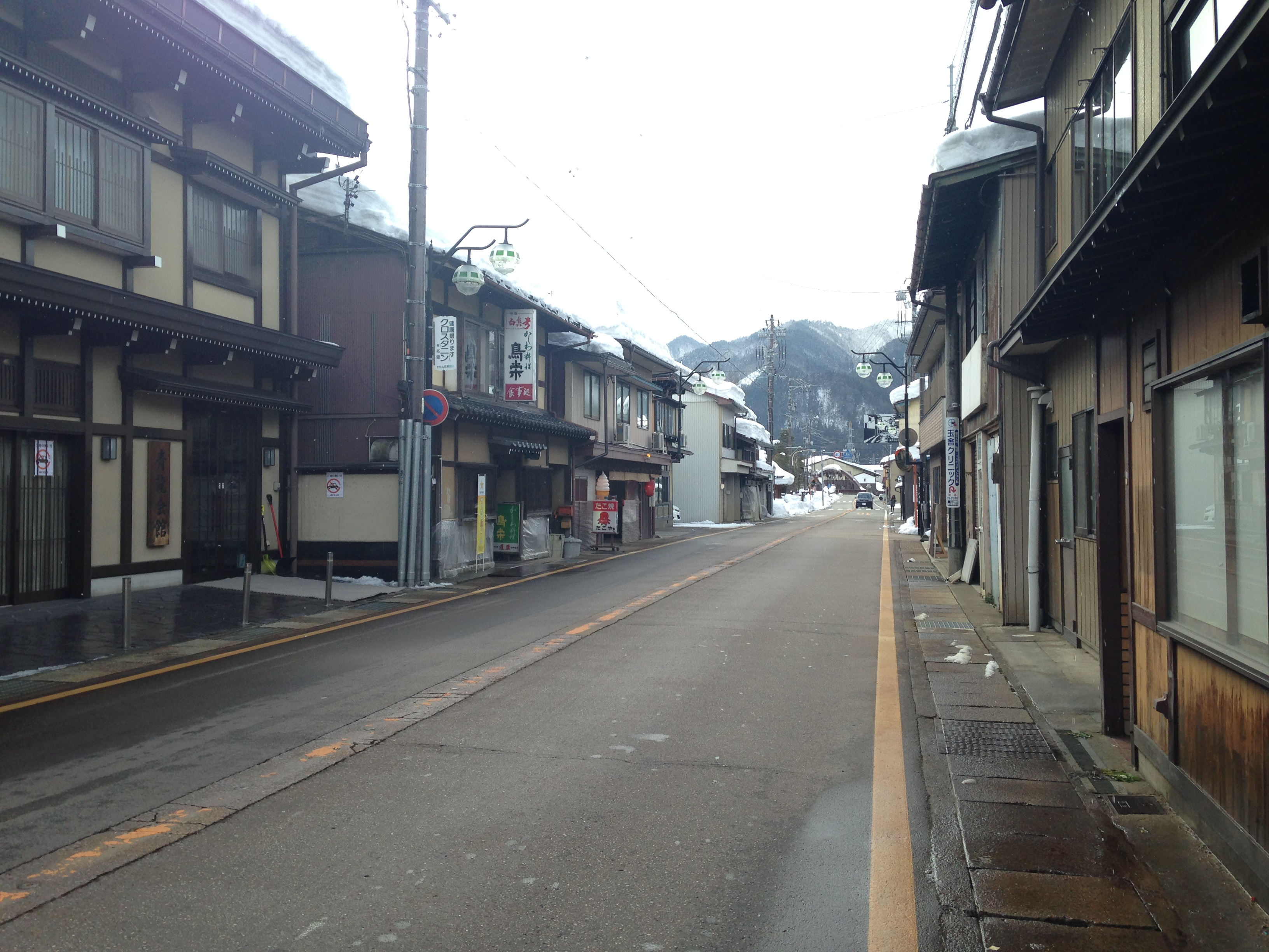 The Gifu Prefectural Road Route 476 near the Tonomachi Intersection